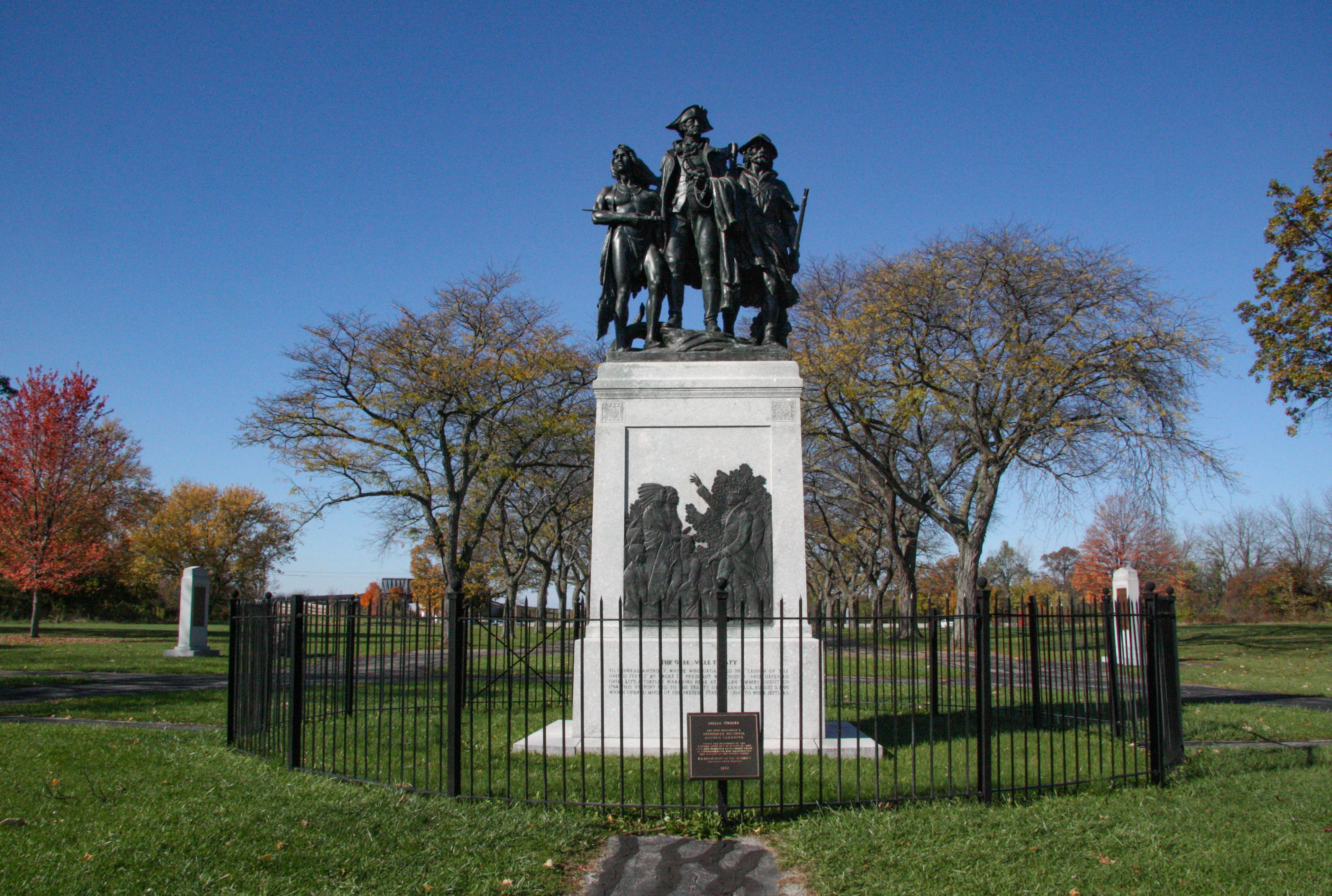 Statue of a Native American, soldier, and frontiersman encircled by a fence in a park Fallen Timbers Battlefield and Fort Miamis National Historic Site in Ohio, an affiliated area of the National Park Service Keywords: Fallen Timbers Battlefield and Fort Miamis National Historic Site; FATI; Fallen Timbers; Ohio; affiliated area; American Indian history; Native American history; settlement; expansion; american military; Battle of Fallen Timbers; Old Northwest Territory